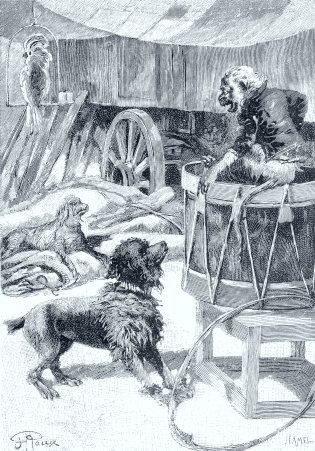 An illustration from Jules Verne's novel "César Cascabel" (1890) drawn by George Roux.